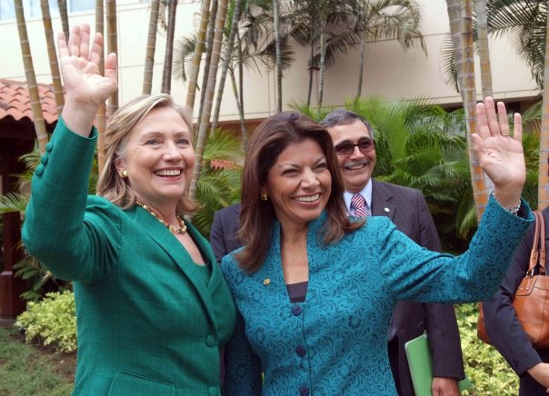 U.S. Secretary of State Hillary Rodham Clinton waves with President-elect Laura Chinchilla Miranda at the Pathways to Prosperity Conference in San José, Costa Rica March 4, 2010.